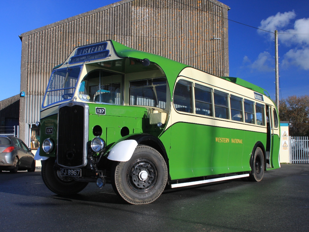 Preserved Bristol H bus FJ 8967, number 137 in the Western National fleet, at Liskeard railway station.